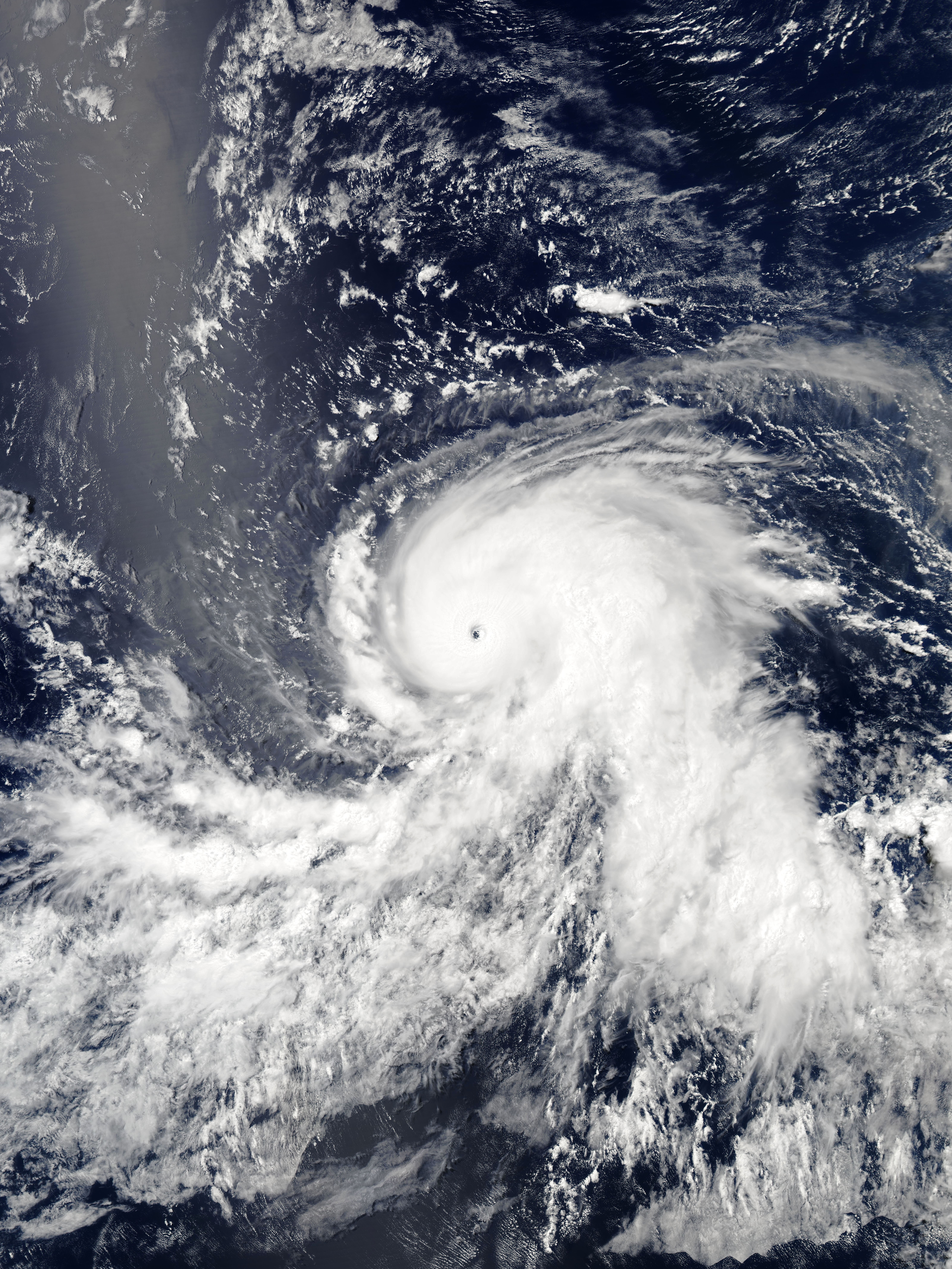 Hurricane Fernanda as a Category 4 hurricane over the Northeast Pacific Ocean late on July 14, 2017.